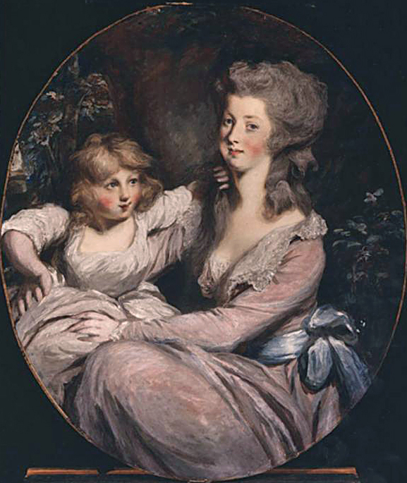 Peggy Shippen (wife of Benedict Arnold) with one of her children, possibly her daughter Sophia (1785–1828)